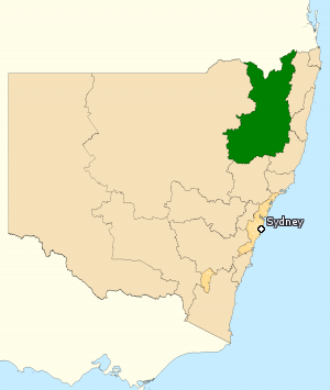 This image incorporates data that is: © Commonwealth of Australia (Australian Electoral Commission) 2009 Division of New England 2010